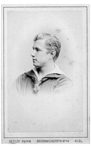 Christian Wilhelm Allers (1857-1915) as a sailor. Christian Wilhelm Allers Christian Wilhelm Allers Christian Wilhelm Allers